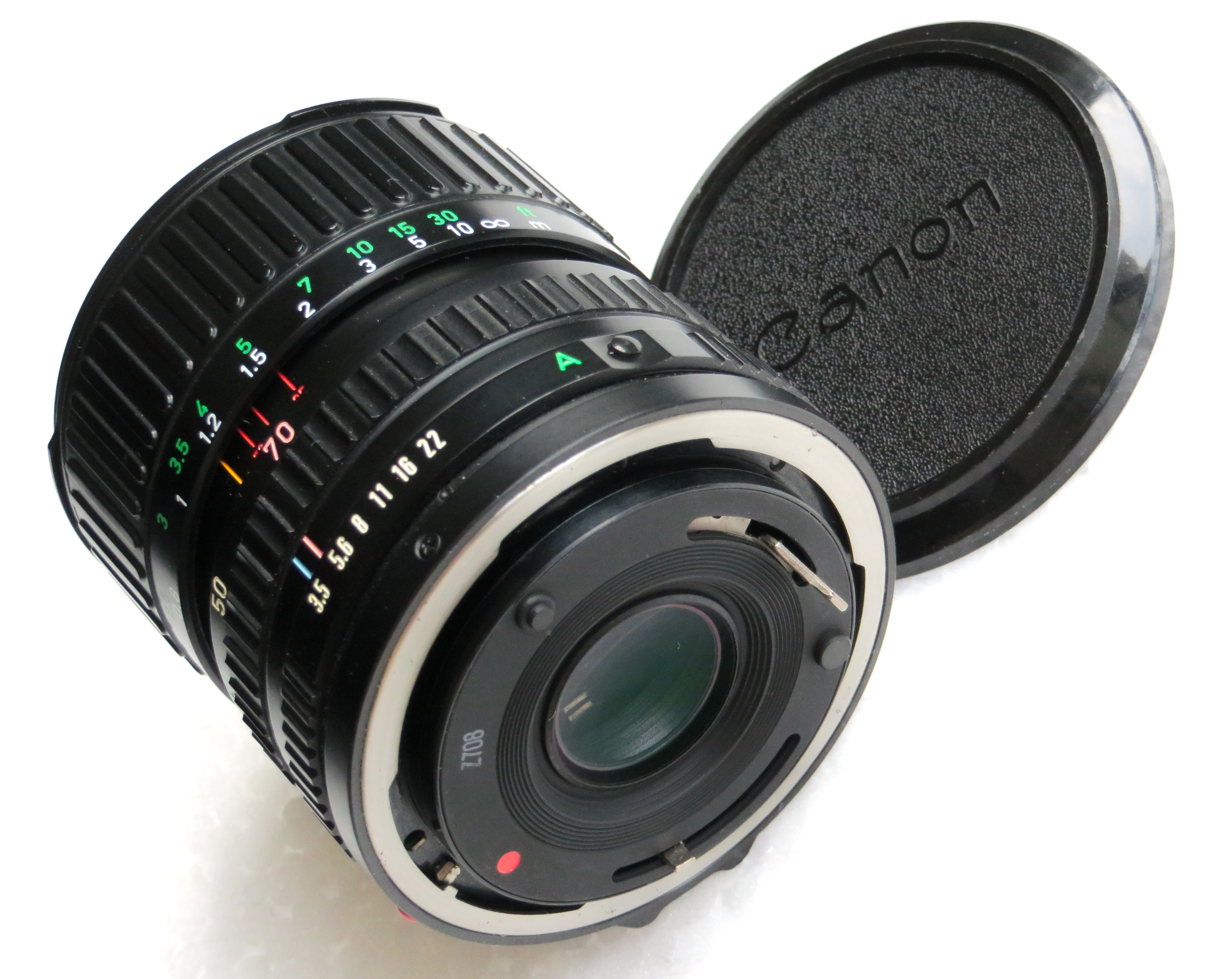 Canon FD lens 35-70mm f3.5-4.5